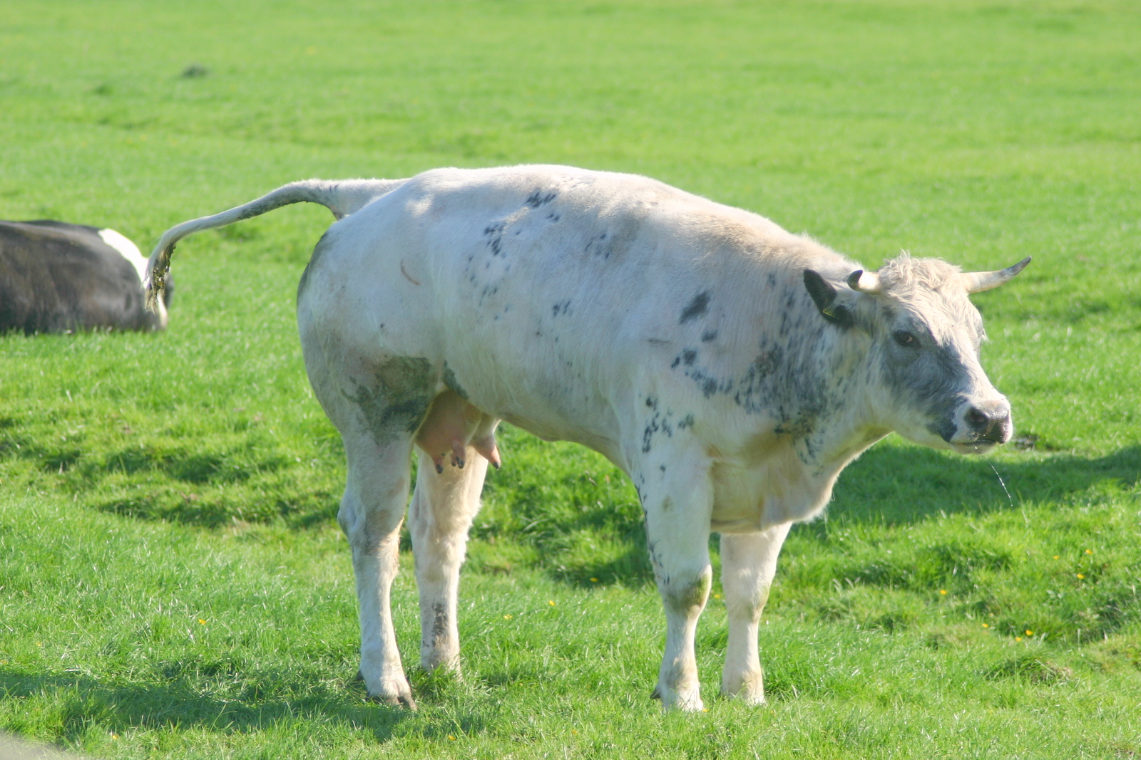 Defecating cow